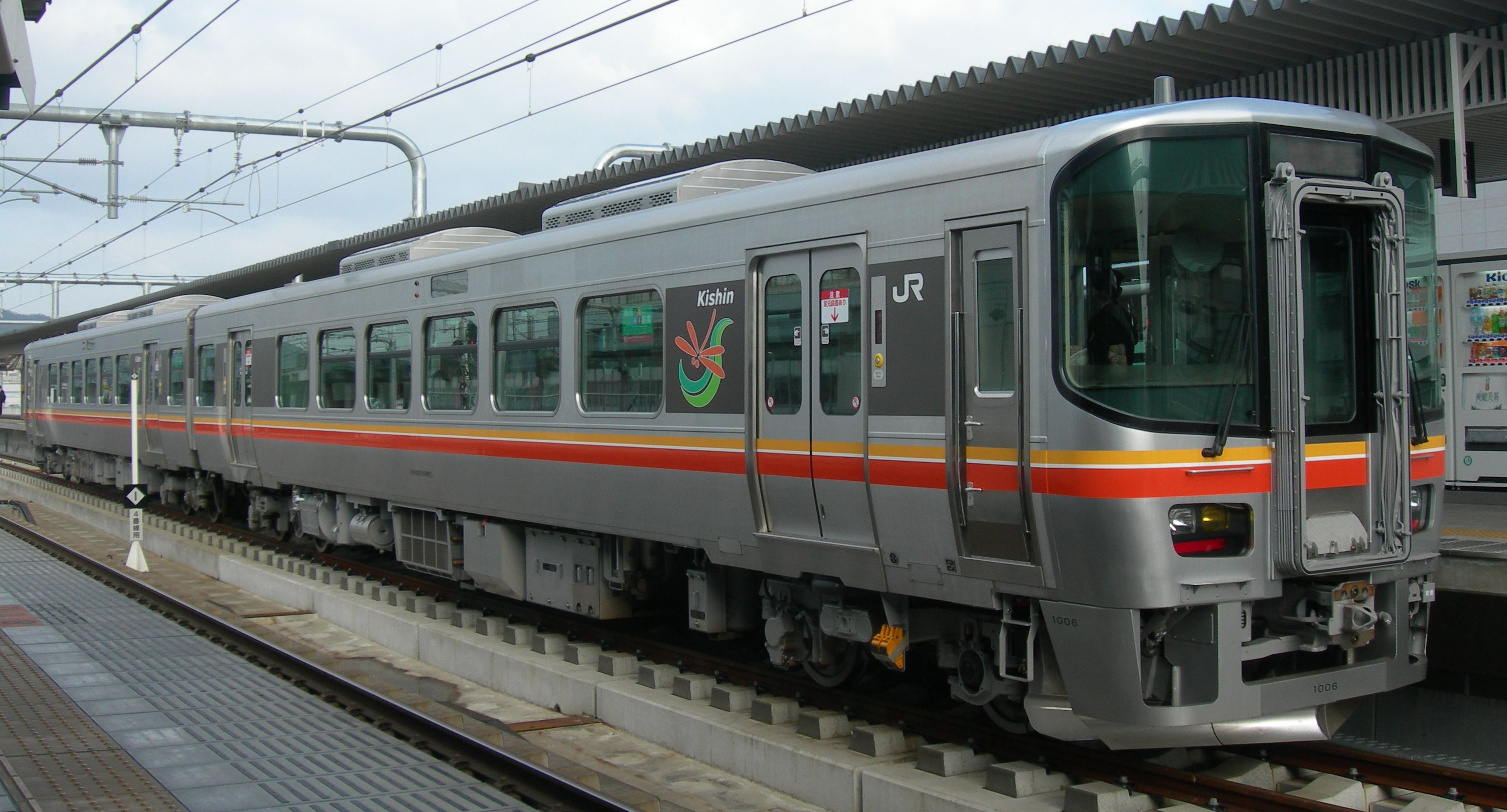 KiHa 127 DMU at Himeji Station